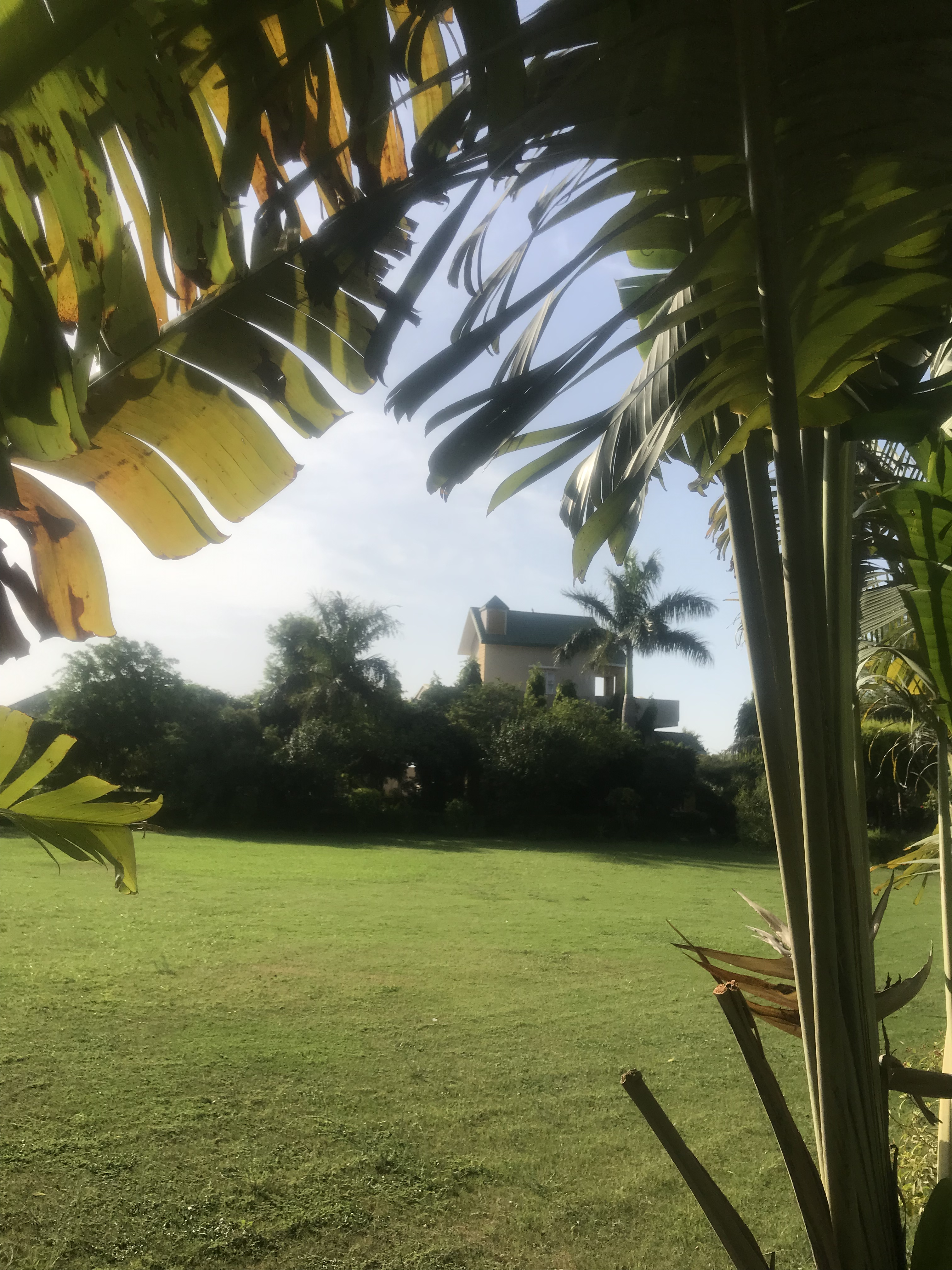 Hira villa is surrounded by nature that guarantees peace, a charming location to host any event. The farm is mainly engaged with cultivation of cereals, many types of vegetables and fruits with the use of only natural products. It has British infrastructure, consists of a shiv mandir within the premise, 3 rooms and 3 washroom and many beautiful gardens.It is well connected with railway station.